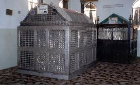 Simple Zarih of Junaid Baghdadi.